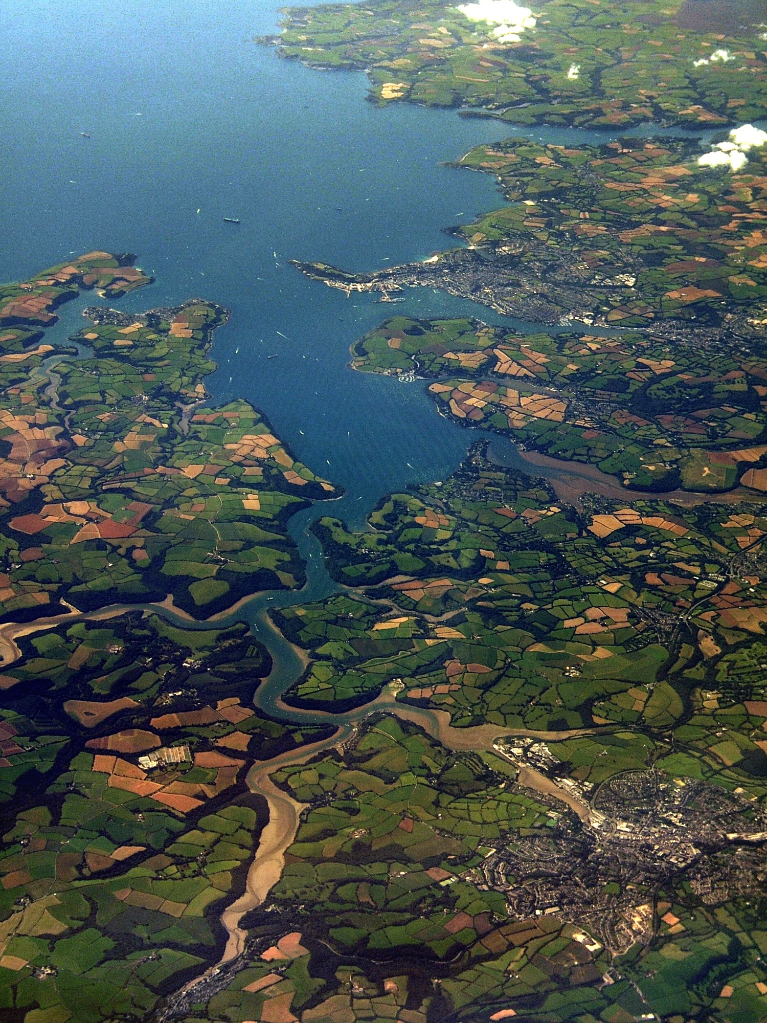 An aerial photo of Carrick Roads. Falmouth is at the mouth of the estuary, and Truro is in the bottom-right of the image. See map. [?]